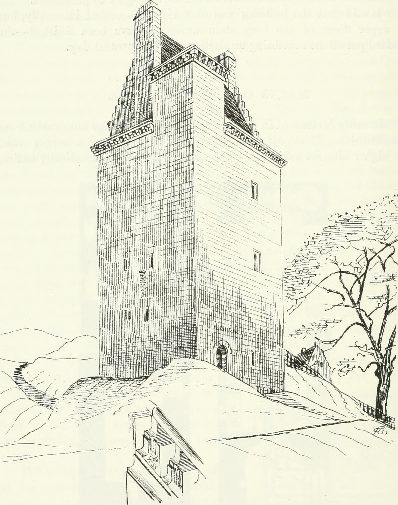 Title: The castellated and domestic architecture of Scotland, from the twelfth to the eighteenth century Year: 1887 (1880s) Authors: MacGibbon, David, d. 1902 Ross, Thomas, 1839-1930 Subjects: Architecture Architecture, Domestic Castles Publisher: Edinburgh : D. Douglas Text Appearing Before Image: GROUND FLOORFig. 167.—Mains Castle. Plans and Section. and has lately been judiciously repaired, is an oblong on Plan (Fig. 167),measuring 37 feet 7 inches from east to west, by 26 feet 10 inches fromnorth to south. It is 41 feet 3 inches high to the parapet walk at thebattlements, and about 12 feet more to the ridge. The entrance (Fig. THIRD PERIOD 232 — MAINS CASTLE 168) is in the south side by a round-headed doorway near the south-westcorner, where also, in the thickness of the wall, a wheel-stair leads to thetop and to the intermediate floors. The ground floor is vaulted, andcontained a loft in the vault (see Section, Fig. 167), the lower division Text Appearing After Image: Fig. 168. —Mains Castle, from South-West. being lighted by two slits. The entresol or loft in the vault is reached bya passage in the west wall leading off the stair (see entresol. Fig. 167);and in the same wall beyond the passage there is a chamber with a hatchin the floor, giving access to an arched dungeon or cellar, which is quitedark, and from which there seems to have been a small opening into the CATHCART CASTLE — 233 — THIRD PERIOD ground floor, about 12 inches square, now built up. The hall (Fig. 167)occupies the first floor, and is 24 feet 11 inches long by 16 feet 2 incheswide. It is lighted by two windows, which have stone seats. The fire-place is quite plain, and is in the east wall. There is a garde-robe in thenorth wall, and a chamber in the west wall over the one below. In thepassage leading from the hall door to the stair there is a stone sink, whichseems to indicate that the hall also served as the kitchen. The floor aboveenters directly ofl the stair, and was